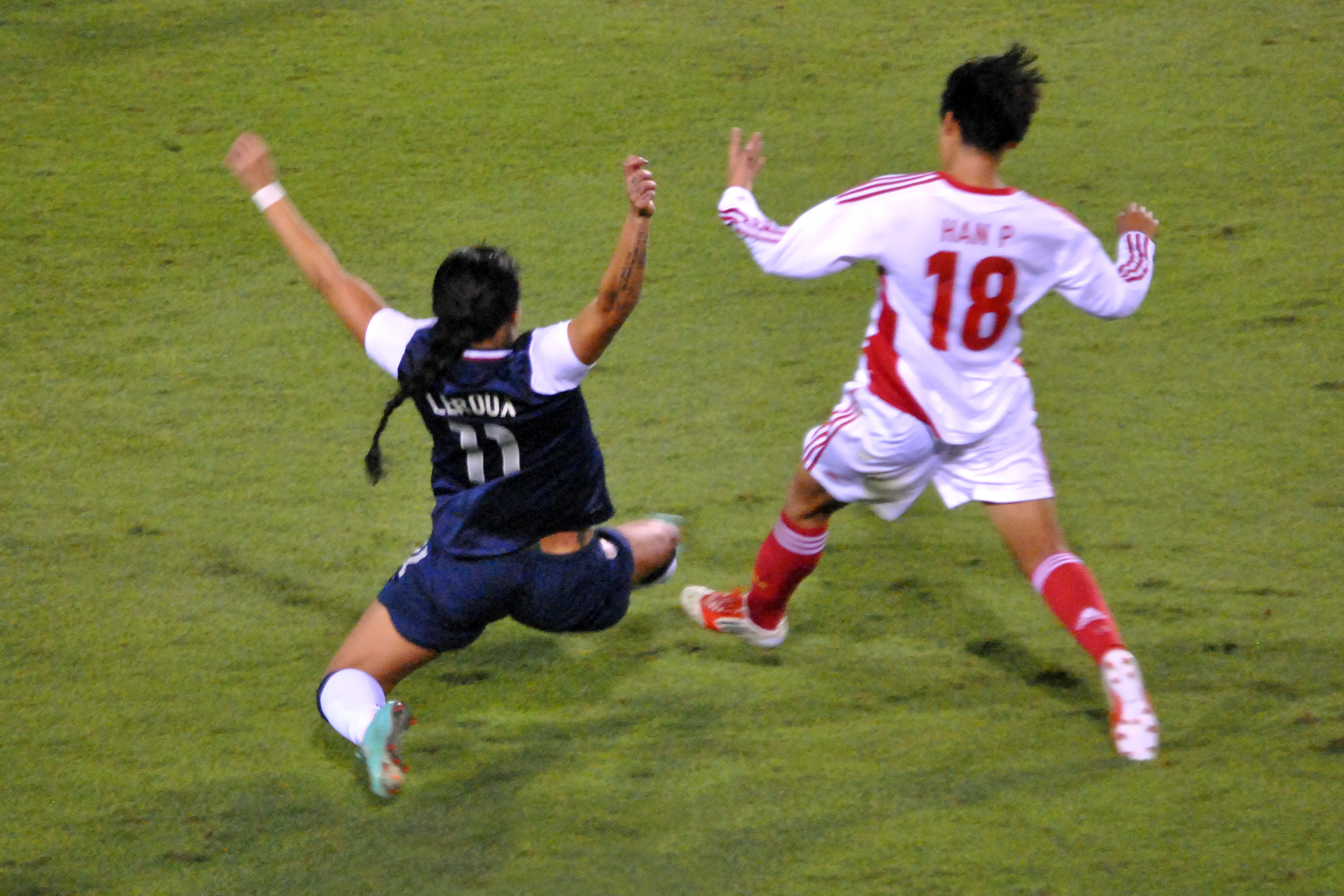 Sydney Leroux, USWNT vs China - Dec 15, 2012